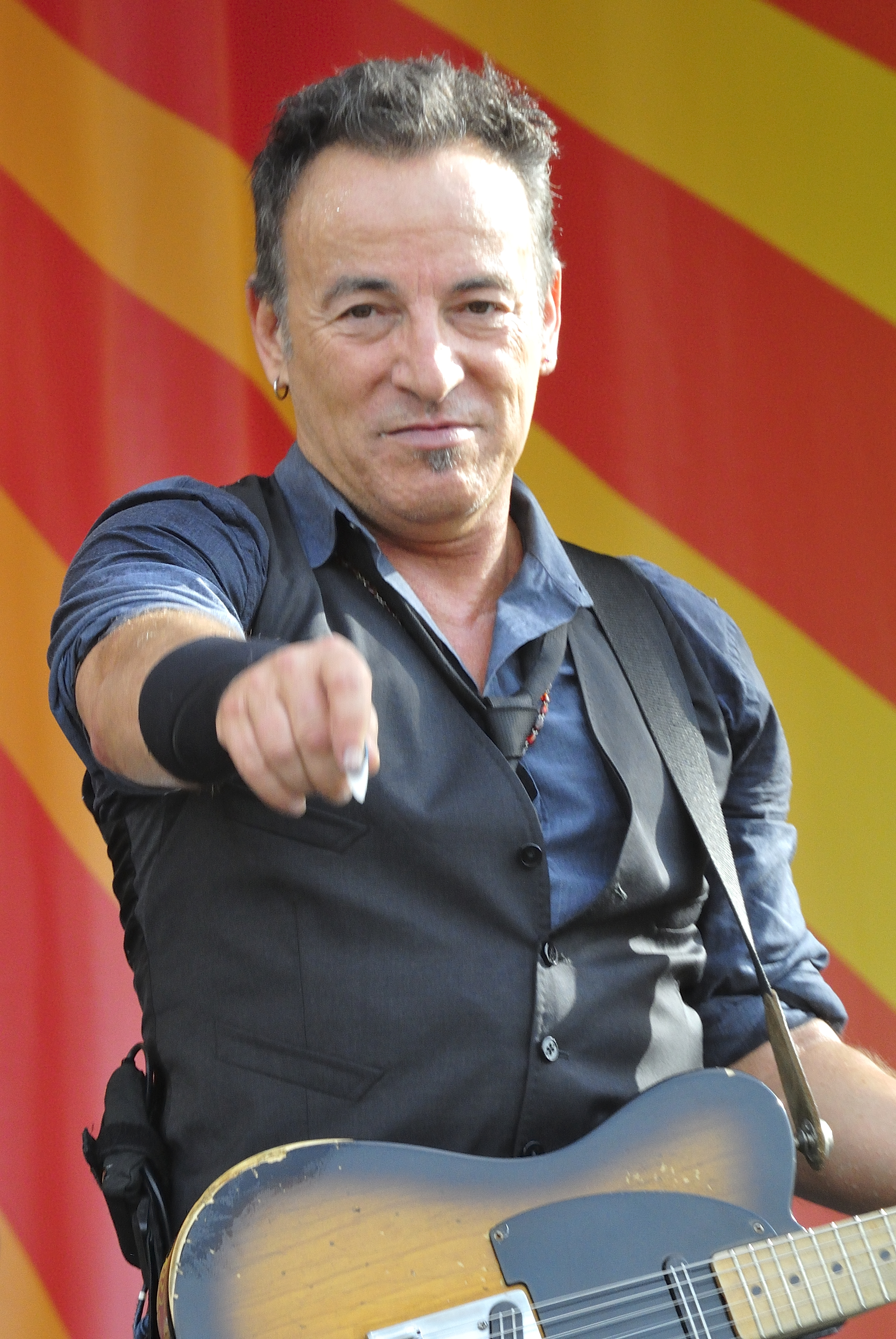 Bruce Springsteen & The E Street Band - New Orleans Jazz & Heritage Festival 2012